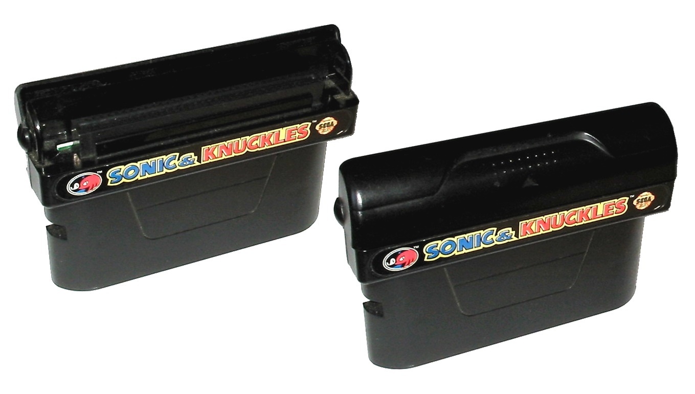 Genesis cartridge of Sonic & Knuckles with showing the extra port for plugging an other cartridge (Lock-on technology).